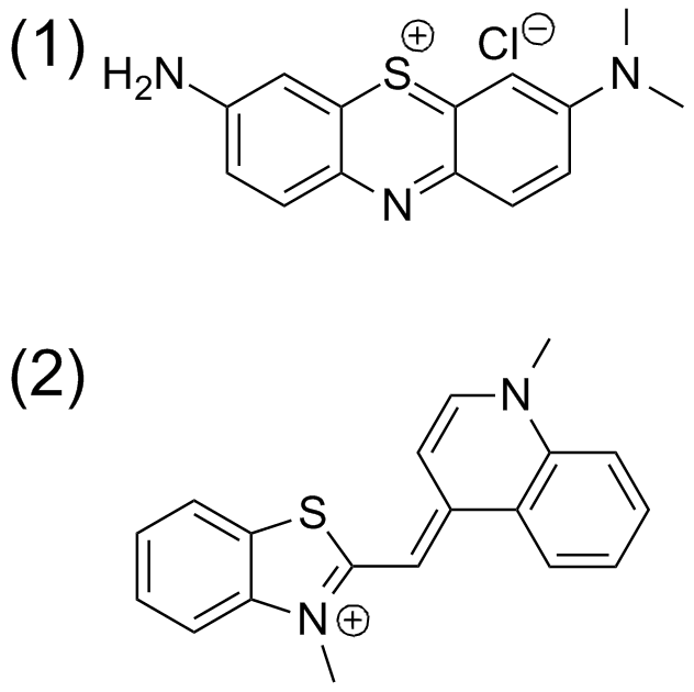 DYES